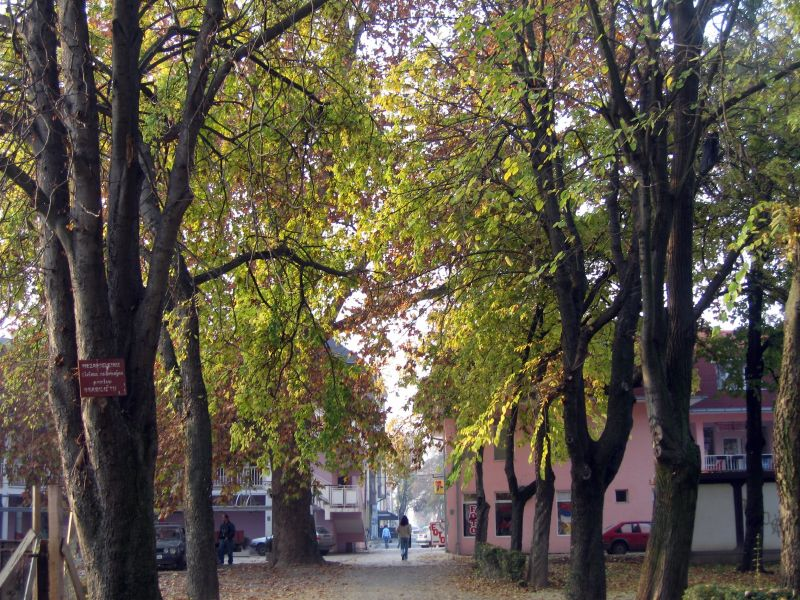 A tree-lined path the town's park and mosque (in process of rebuilding) in Šamac, Bosnia and Herzegovina